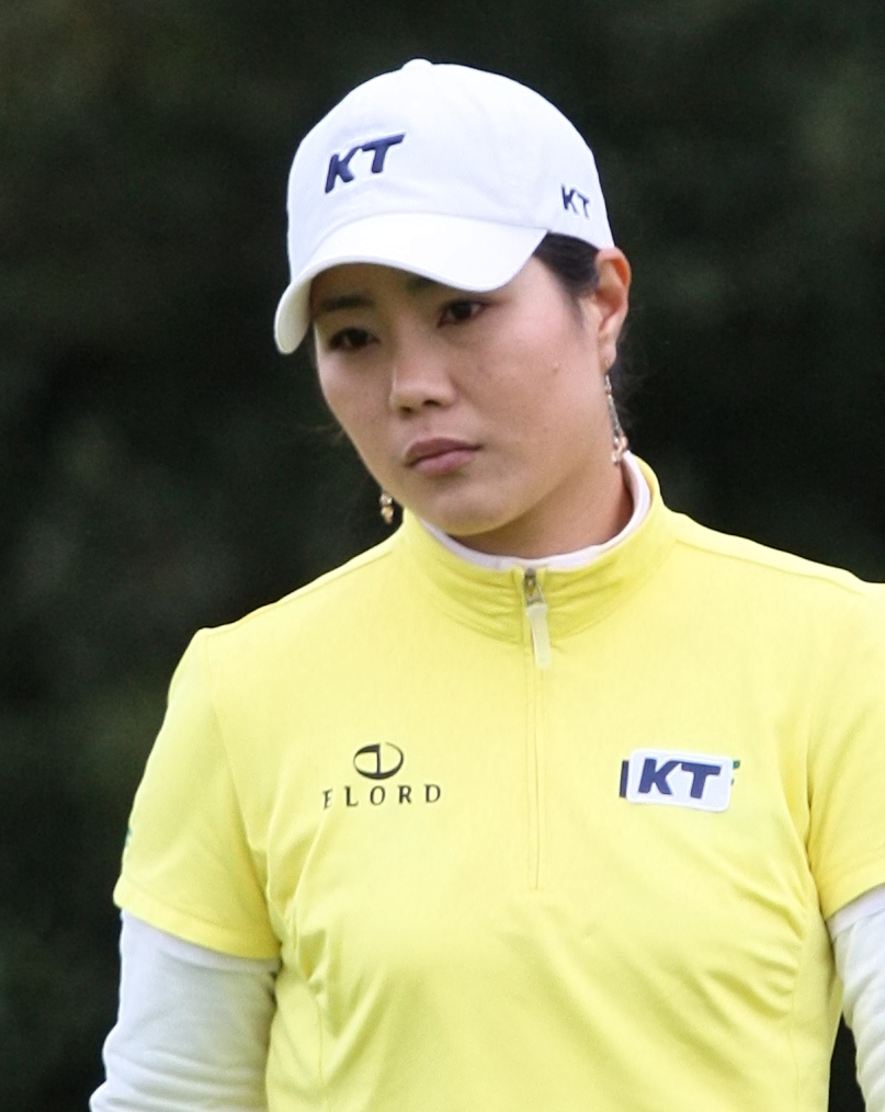 LYTHAM ST ANNES, UNITED KINGDOM - JULY 29: Meena Lee of South Korea on the 11th green during third practice round before 2009 Ricoh Women's British Open held at Royal Lytham & St Annes on July 29, 2009 in Lytham St Annes, England. (Photo by Wojciech Migda)